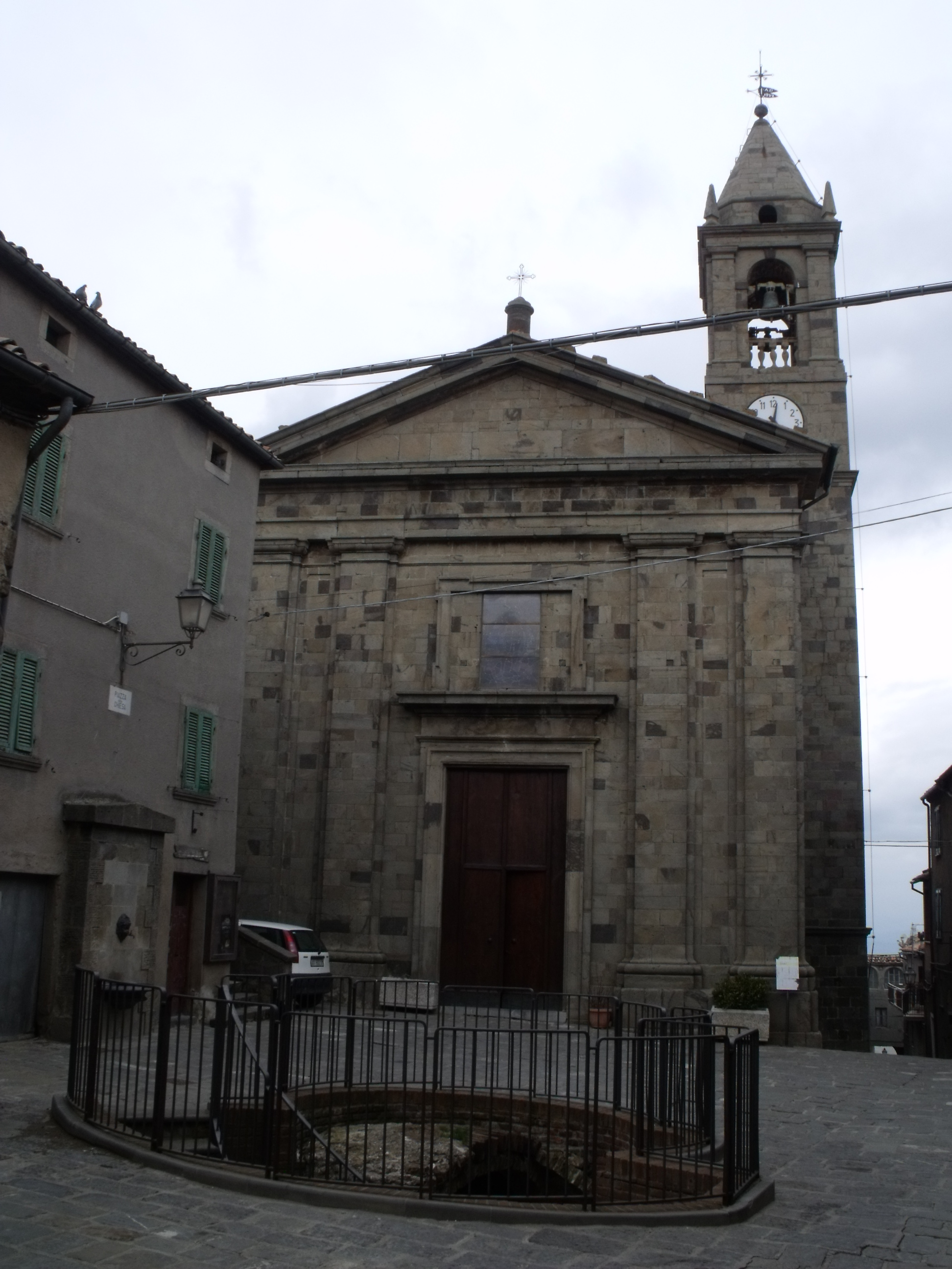 Church San Michele Arcangelo in Monticello Amiata, hamlet of Cinigiano, Province of Grosseto, Tuscany, Italy